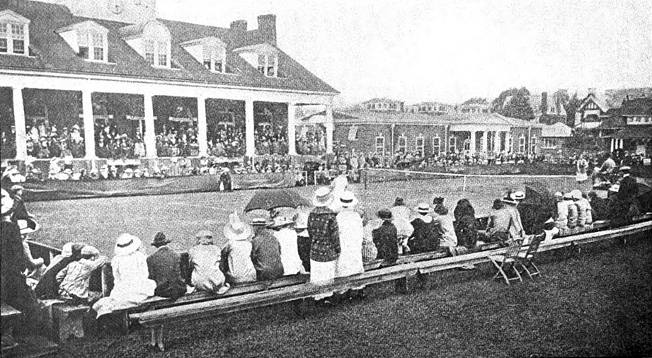 1912 U.S. Womens National Tennis Championship at the Philadelphia Cricket Club.